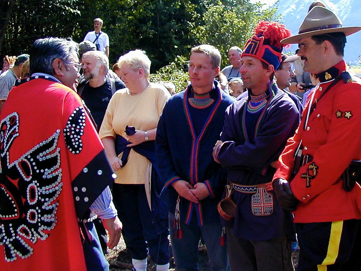 Haisla chief Kenny Hall welcoming Sami reindeer-herding representatives from Sweden.